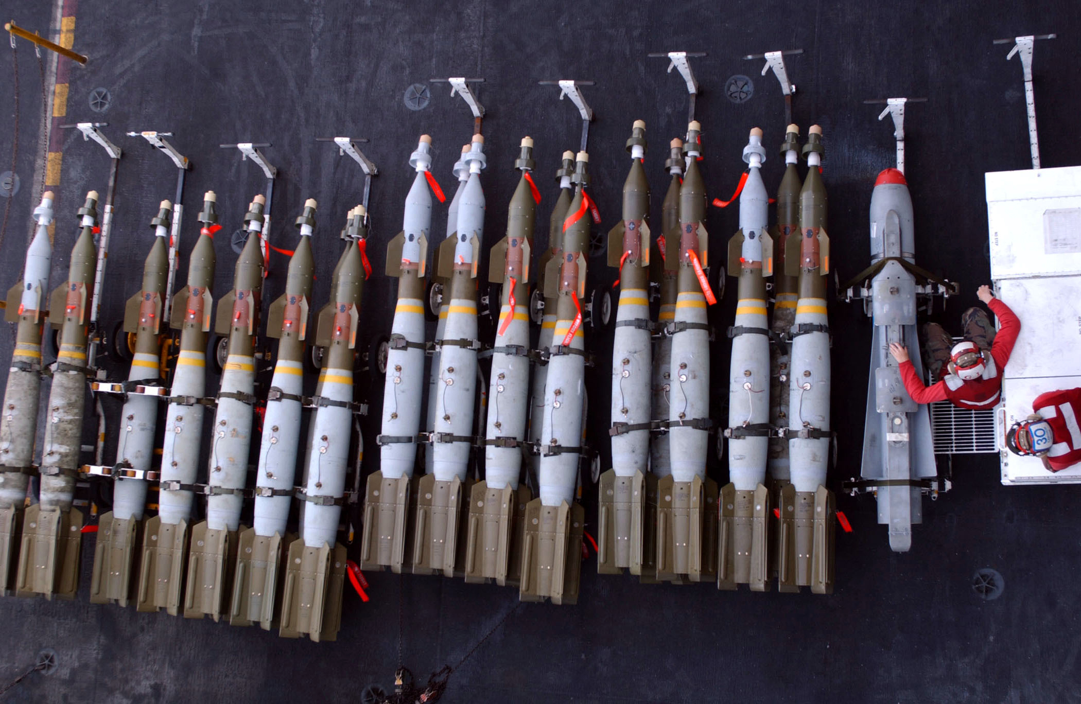 011120-N-6626D-502 At sea aboard USS Theodore Roosevelt (CVN 71) November 20, 2001 - An Aviation Ordnanceman assigned to the weapons department, maintains a safety and security watch for weapons staged on the flight deck prior to loading on aircraft. At the Sailors immediate left is an AGM-65 “Maverick air-to-surface close air support missile, and a series of Laser-Guided bombs. Theodore Roosevelt and her embarked Carrier Air Wing (CVW) are conducting missions in support of Operation Enduring Freedom. U.S. Navy Photo by Photographer’s Mate Airman Dela Torres (Released)